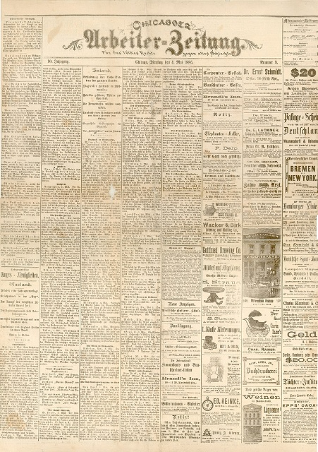 The masthead for the May 4, 1886, Arbeiter Zeitung, which was presented as evidence of a criminal conspiracy in the Haymarket affair.